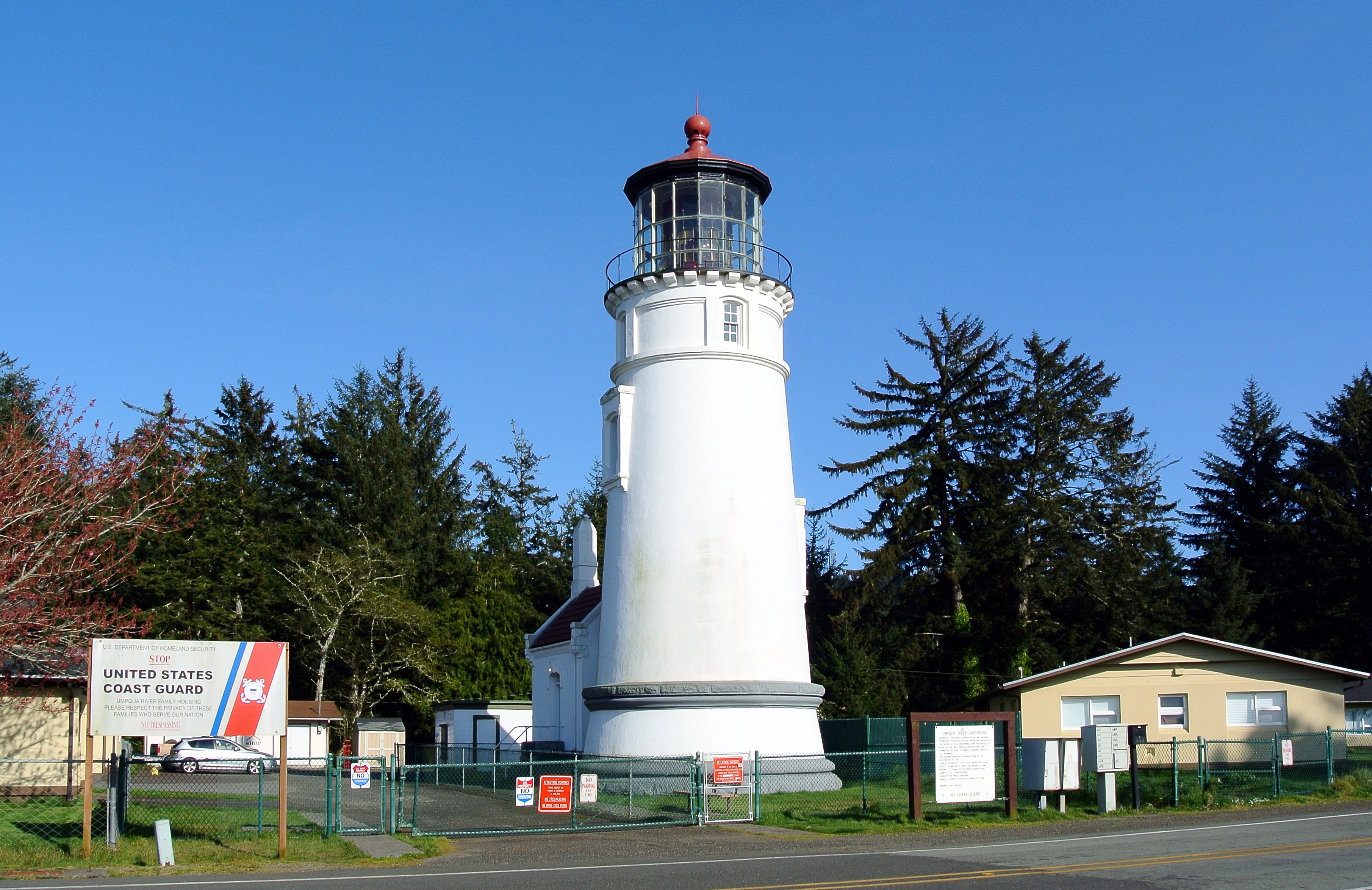 Umpqua River lighthouse, Oregon. Nikon 1 V1 + 1 Nikkor VR 10-30mm f/3.5-5.6